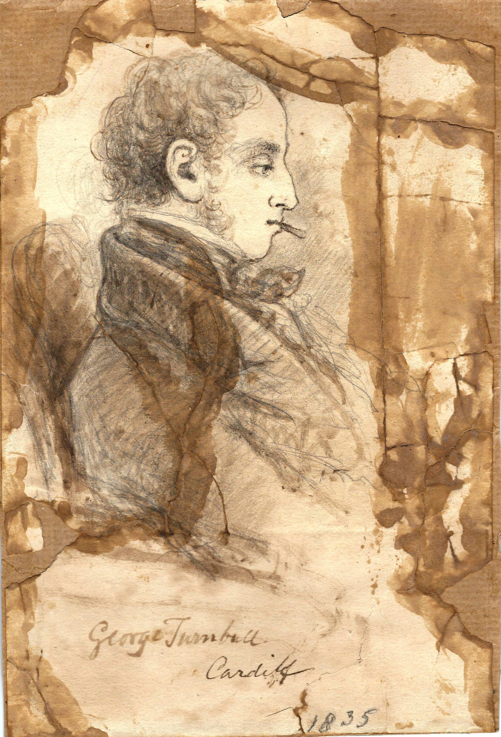 Hand drawing of George Turnbull in 1835 when he was the Resident Engineer developing Bute Docks in Cardiff, Wales.